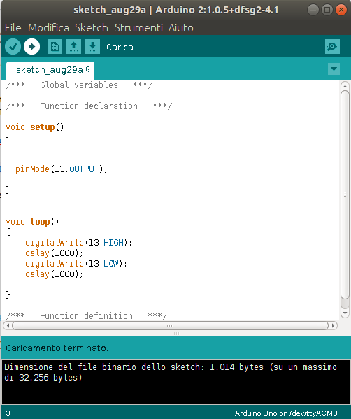 IDE Arduino code for a blincking led